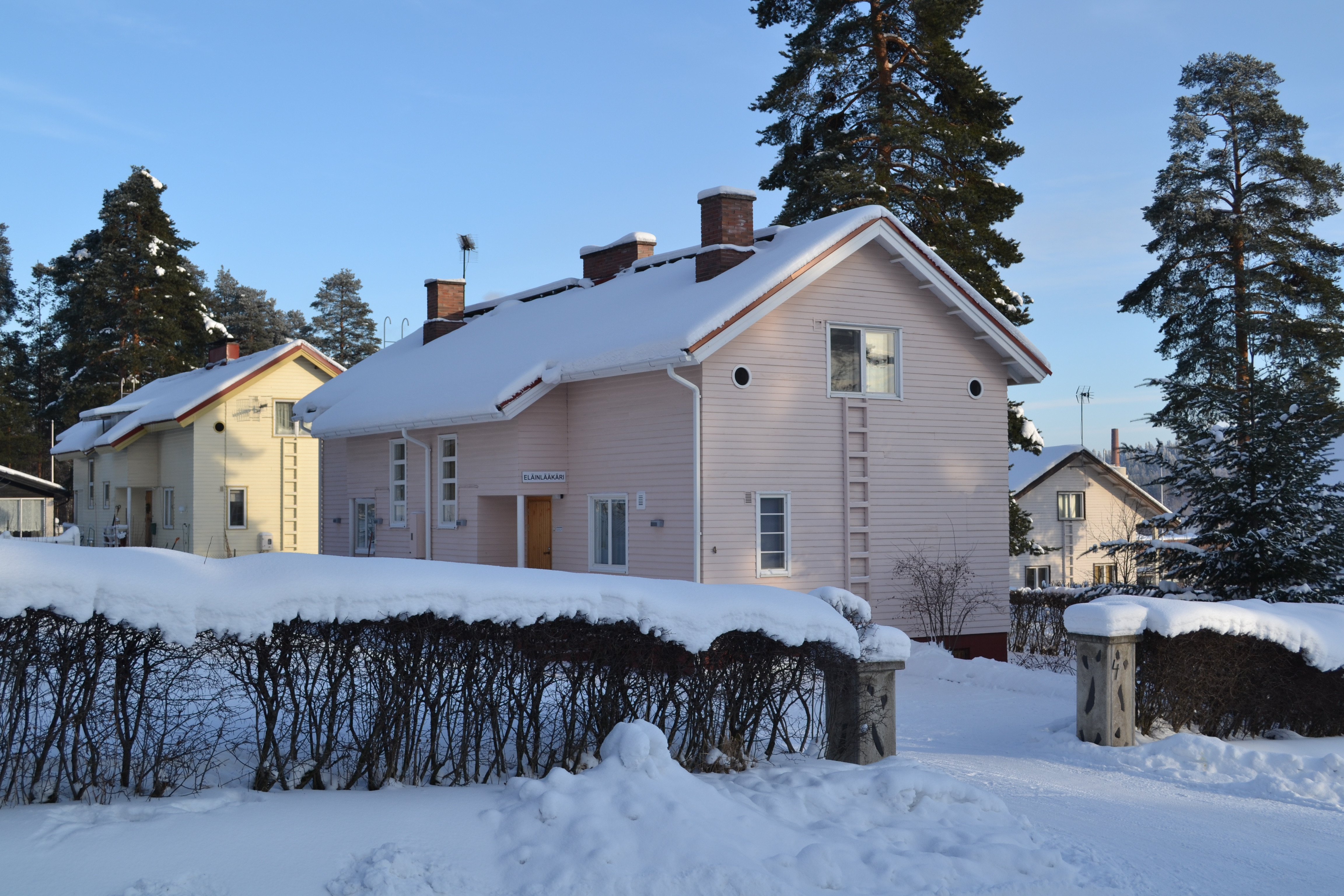 Semi-detached houses on Kakaravaara street in the district of Vaajakoski in Jyväskylä